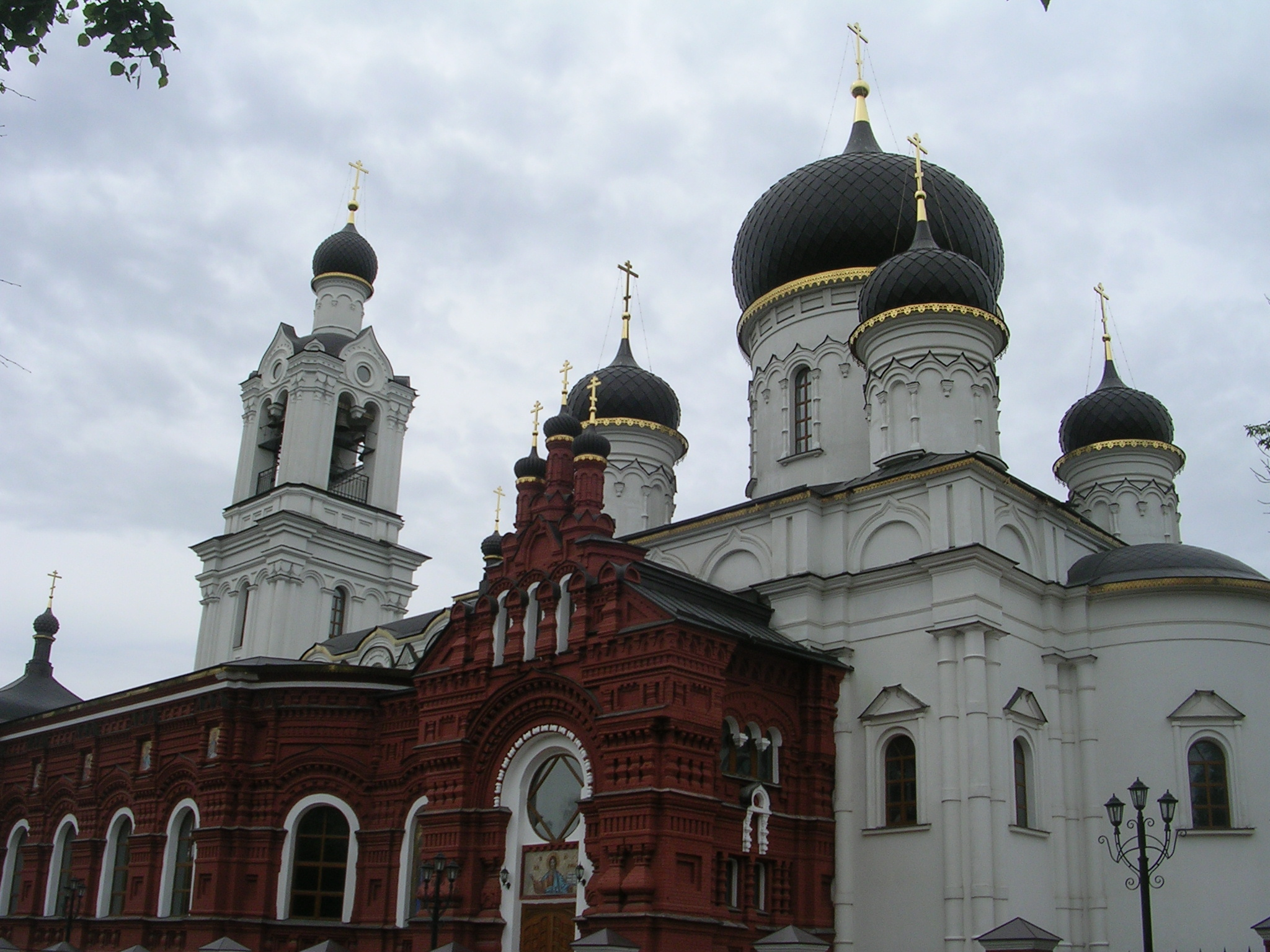 Theotokos of Tikhvin Temple in Noginsk (1846), Moscow region.